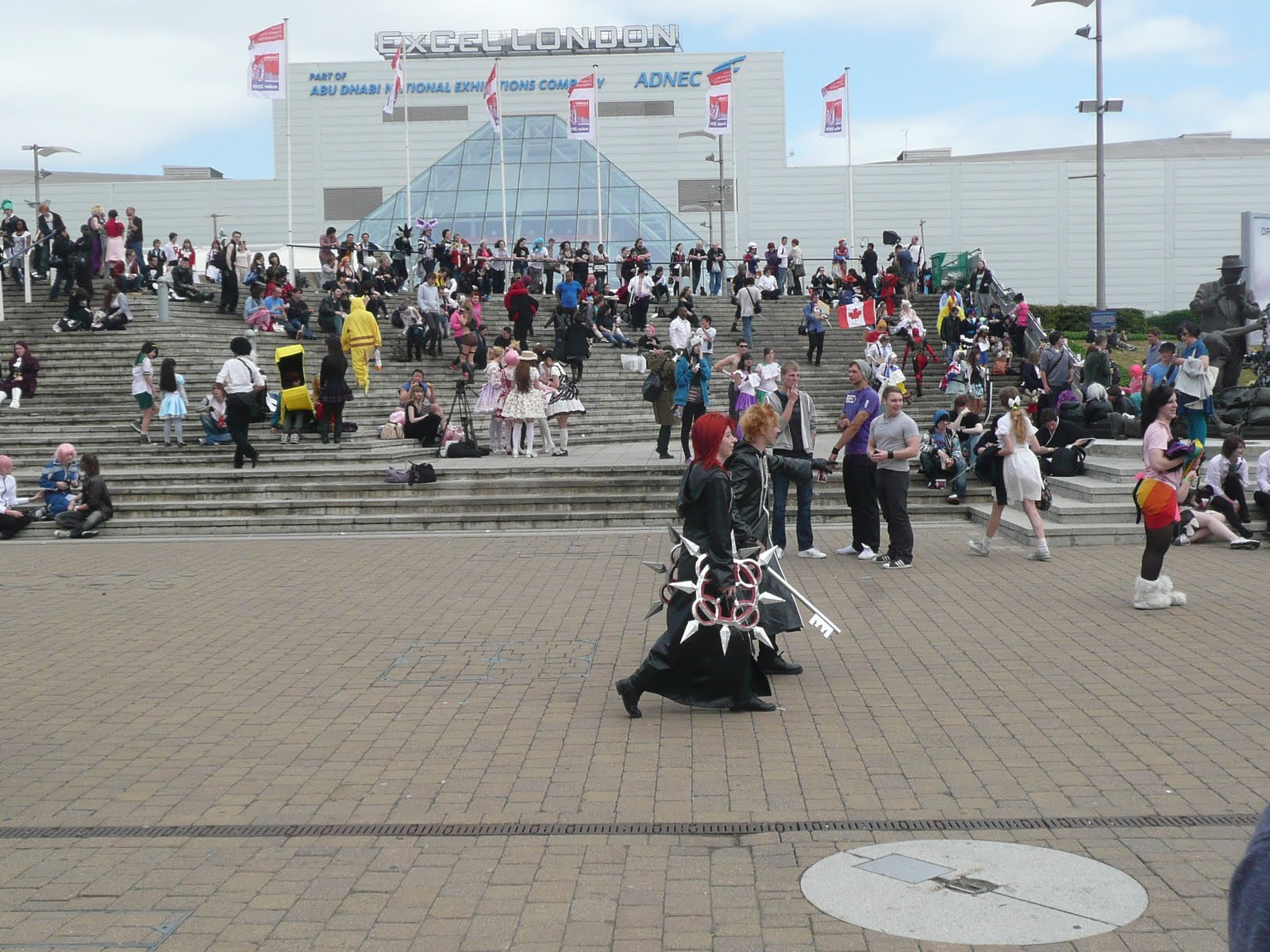 Taken at MCM Expo May 2011; Outdoor activities next to Main Entrance to eXceL; Various cosplayers shown.